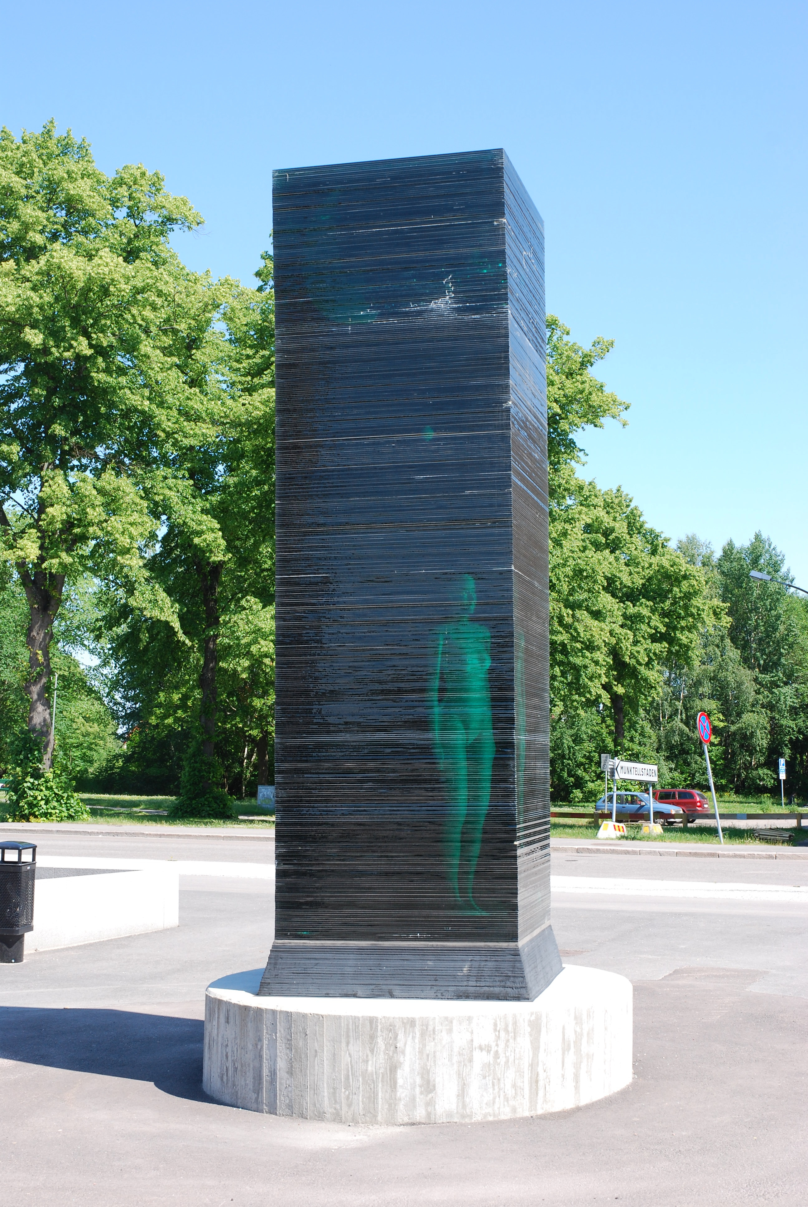 Kent Karlsson´s Hemligheten (The Secret), glass, 2004, outside Eskilstuna Art Museum in Sweden